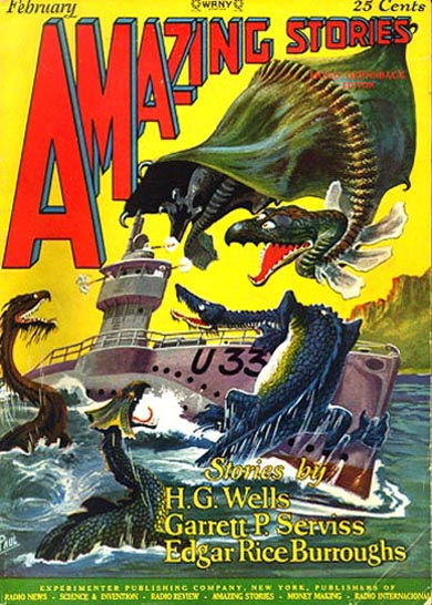 Cover to Amazing Stories, February 1927